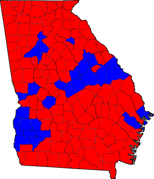 Results of the Georgia senatorial runoff election, 2008 by county. Red indicates counties that voted for Chambliss, blue for Martin.